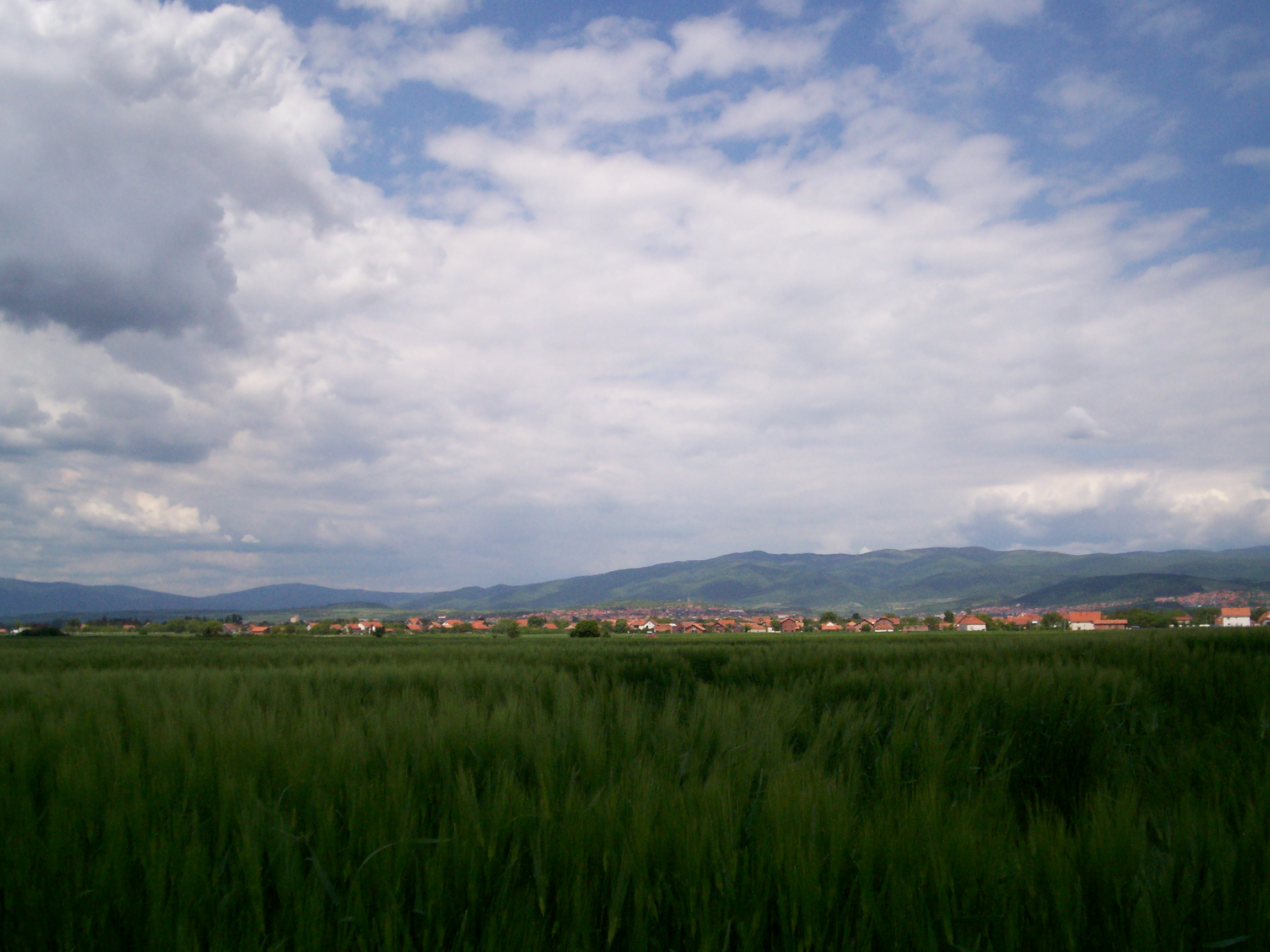 village Prcilovica, Serbia